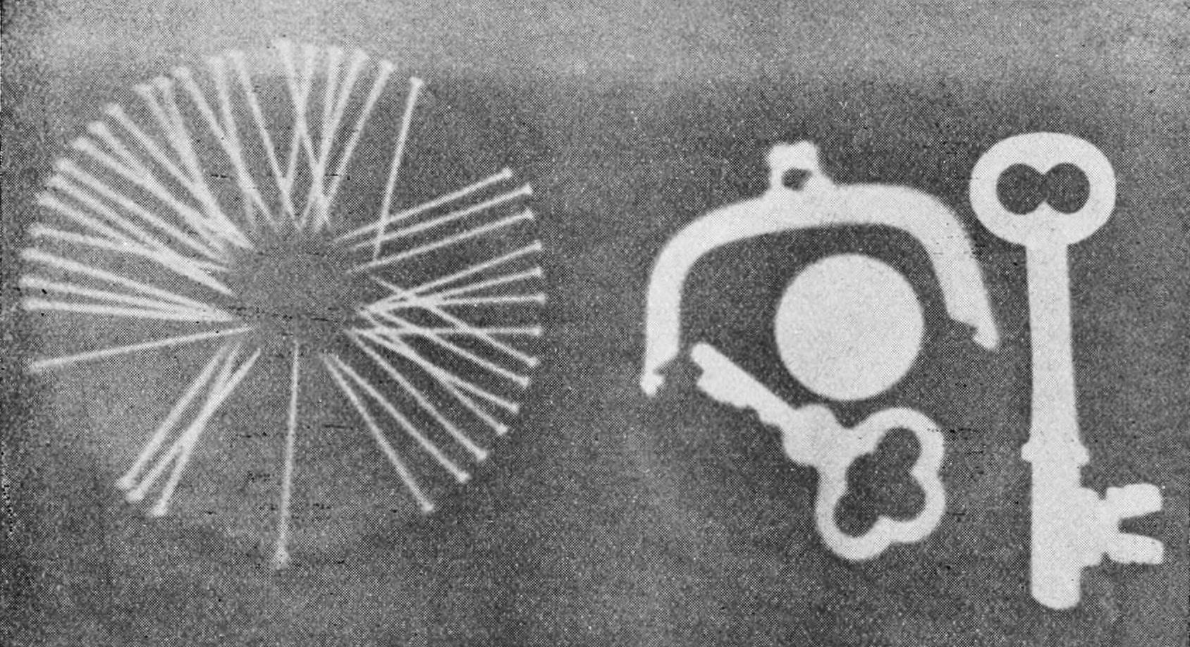 Two and a half second X ray exposure